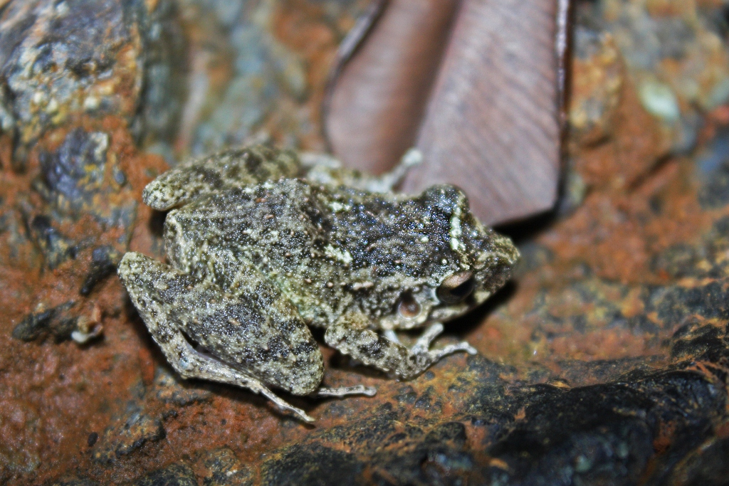 Found on rocks next to a small stream above Playa Maguana, Baracoa area.